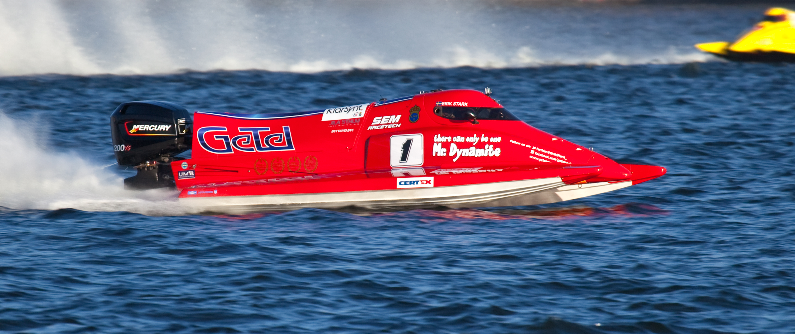 World and European F2 & F4 Championships at Riddarfjärden Stockholm June 2012